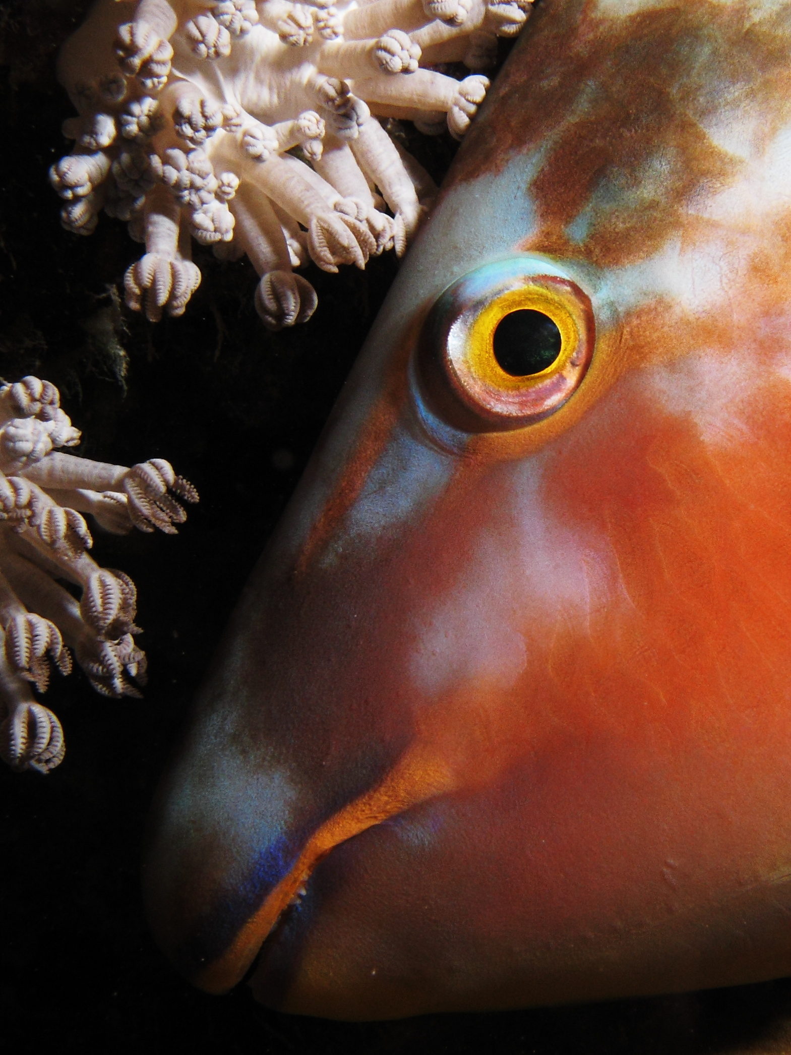 Closeup of sleeping longnose parrotfish (Hipposcarus harid) at Shaab Mahmoud (Red Sea, Egypt)